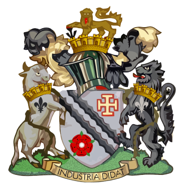 The coat of arms of the Radcliffe Municipal Borough Council. Granted in 1935: ARMS: Argent two Bendlets engrailed Sable between a Cross potent voided of the field and a Rose of the third barbed Vert seeded Or. CREST: Upon a Mural Crown a Lion passant guardant Or the dexter forepaw resting on a Pheon Sable. MOTTO: INDUSTRIA DIDAT